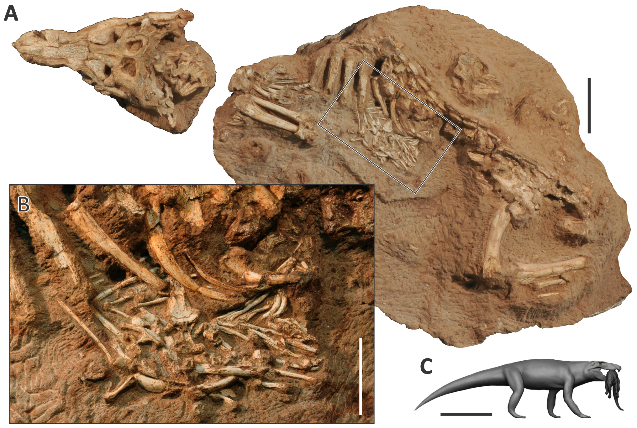 Fossil crocodyliformes showing predator-prey interaction. A, Aplestosuchus sordidus skeleton (LPRP/USP 0229a). Scale bar, 10 cm. B, Area highlighted in “a” with details of the abdominal content, including sphagesaurid remains (LPRP/USP 0229b). Scale bar, 5 cm. C, Reconstructed predator and prey. Reconstruction by Rodolfo Nogueira. Scale bar, 50 cm.